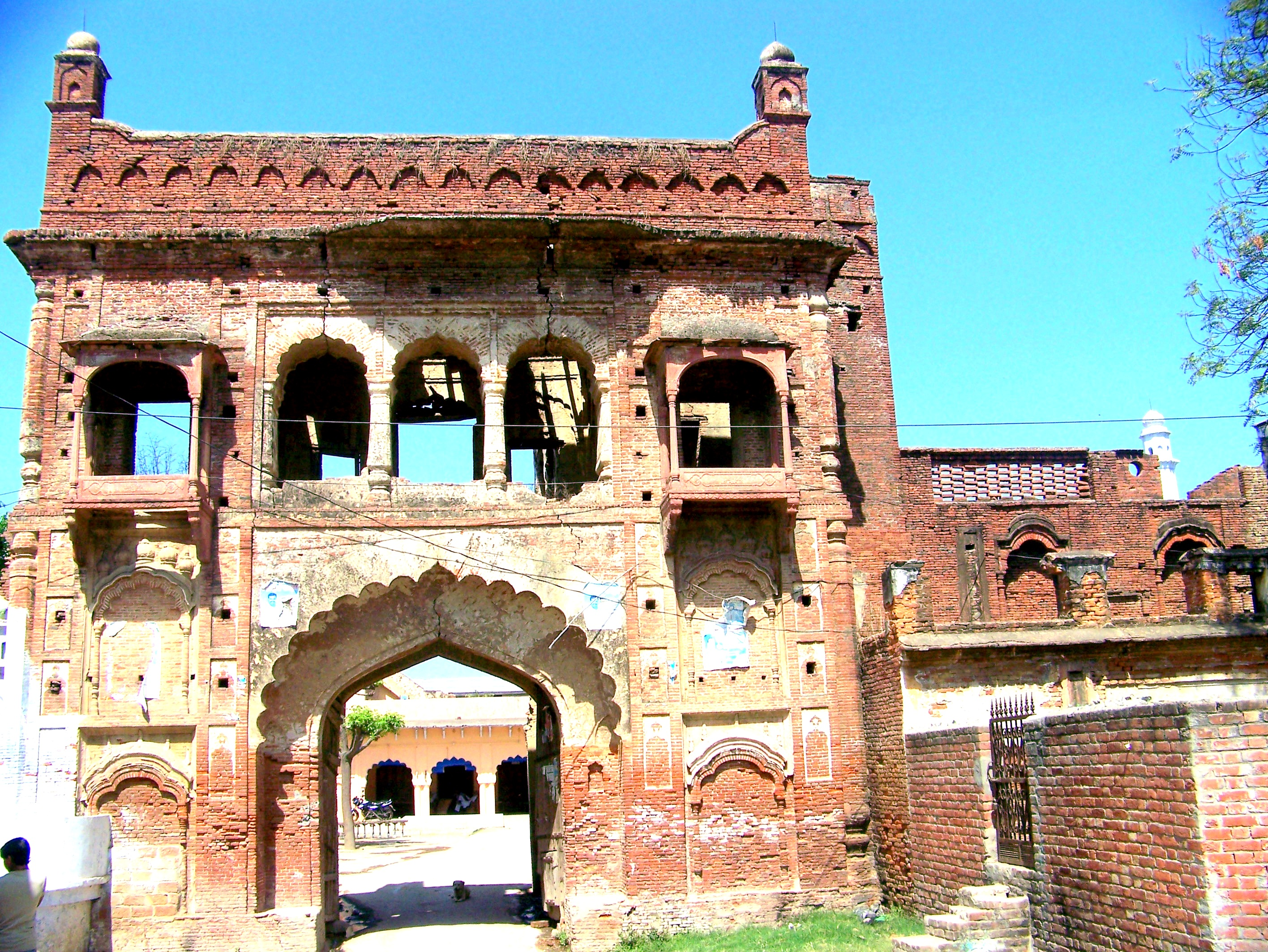 Bada Darwaza is a Four Hundred Year old Gate build in Kakrouli Village of Muzaffarnaga.